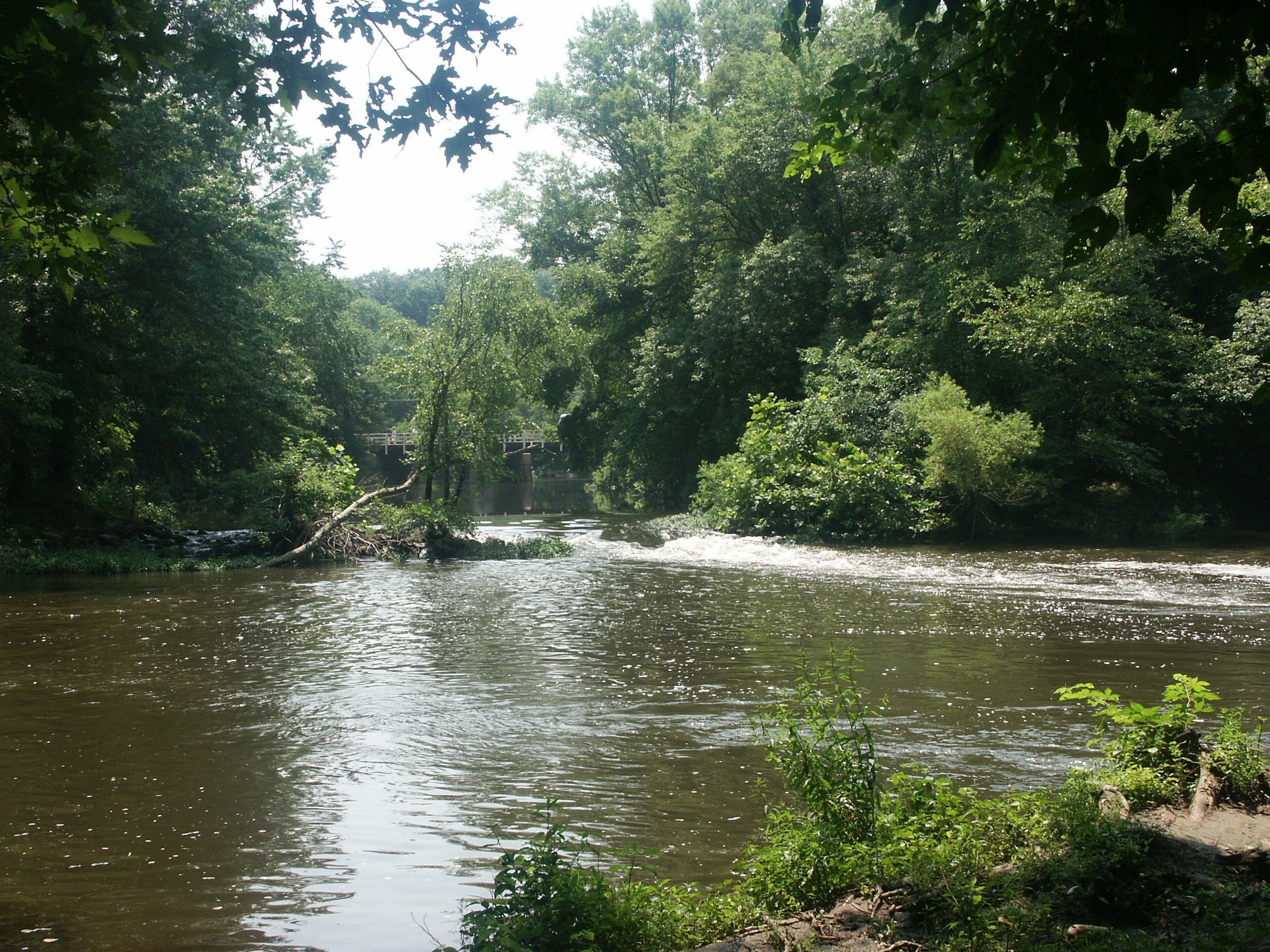 Millstone River just north of the Route 518 bridge